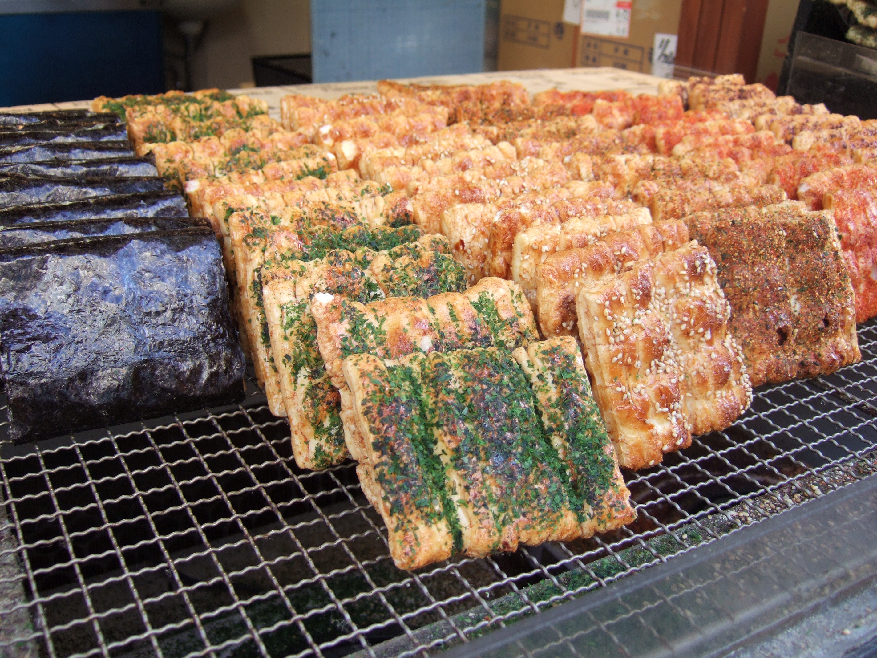 Different kinds of senbei in Nara